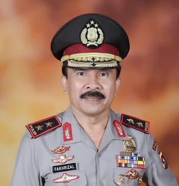 Inspector General Fakhrizal, Head of West Sumatra Regional Police, Indonesia.